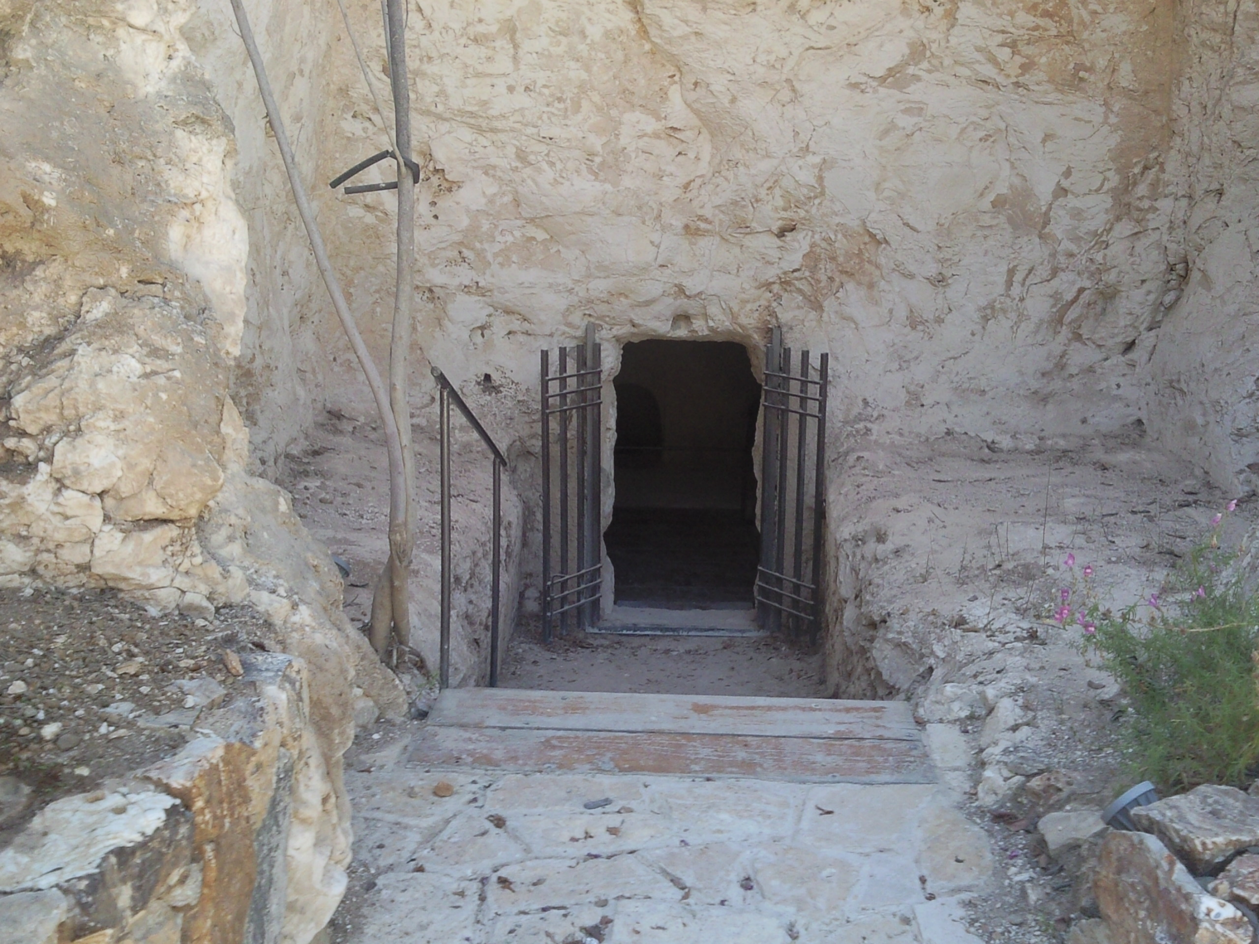 Nicanor Cave entrance in Botanical Gardens at Hebrew University, Mount Scopus branch.